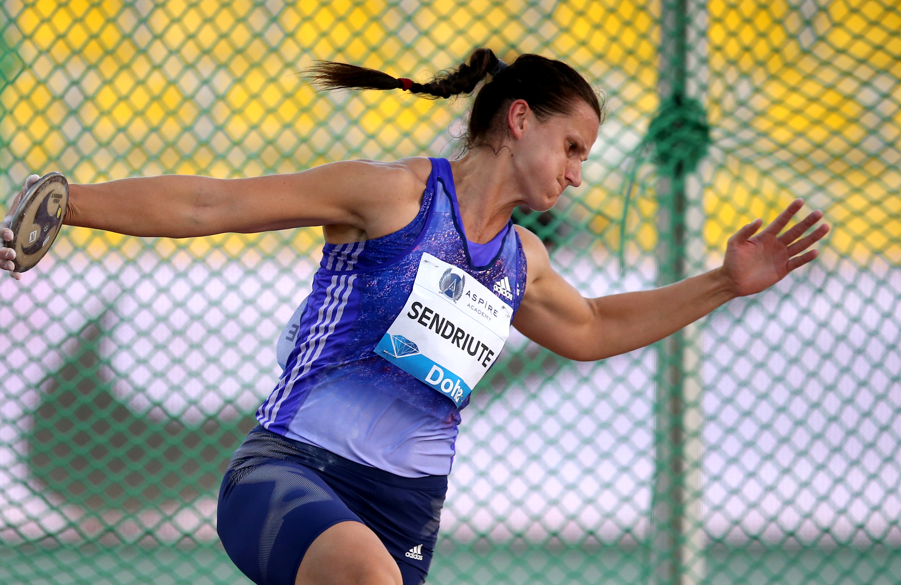 Lithuania's Zinaida Sendriute competes in women's discus throw during the Doha Diamond League meet. Pic by Vinod Divakaran